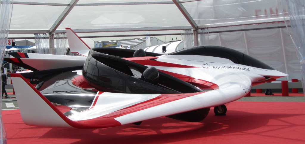 AgustaWestland Project Zero on Display.